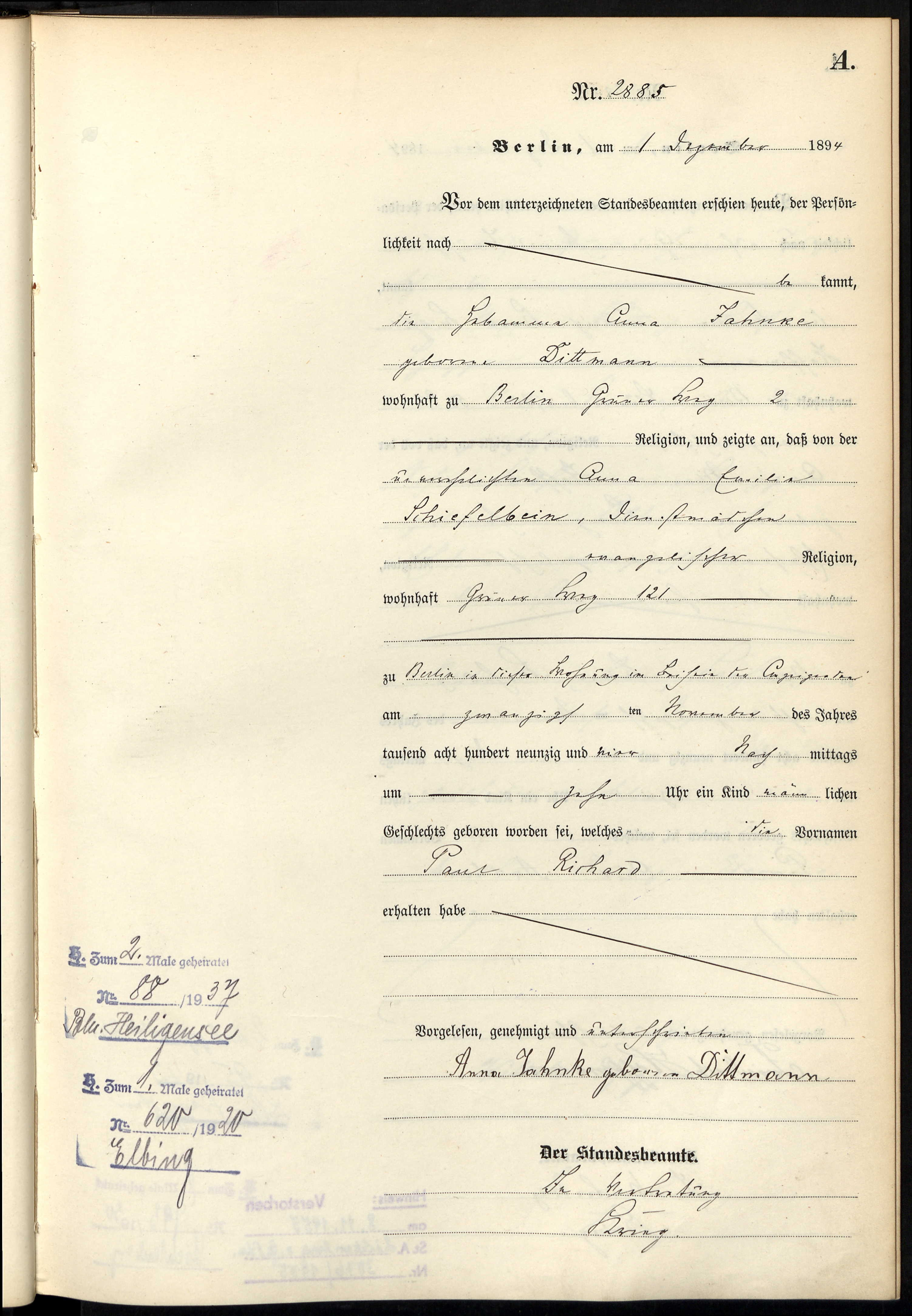 Birth ceritificate for Paul Schiefelbein (1894-?) a high ranking police official in the German occupied Czech Republic during World War 2. Sentenced to 15 years of imprisonment as a war criminal after the WW.